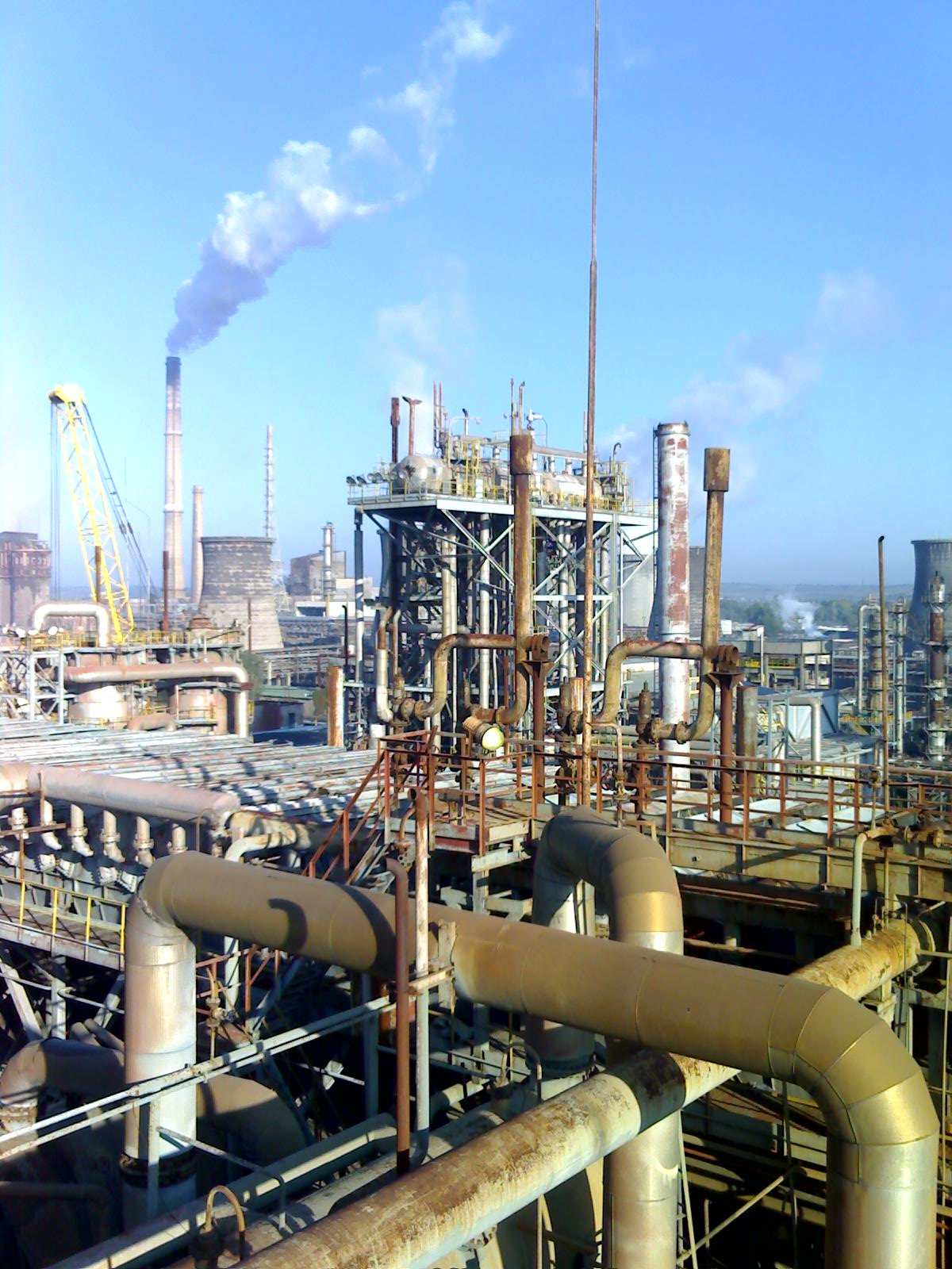 ammonia production installations